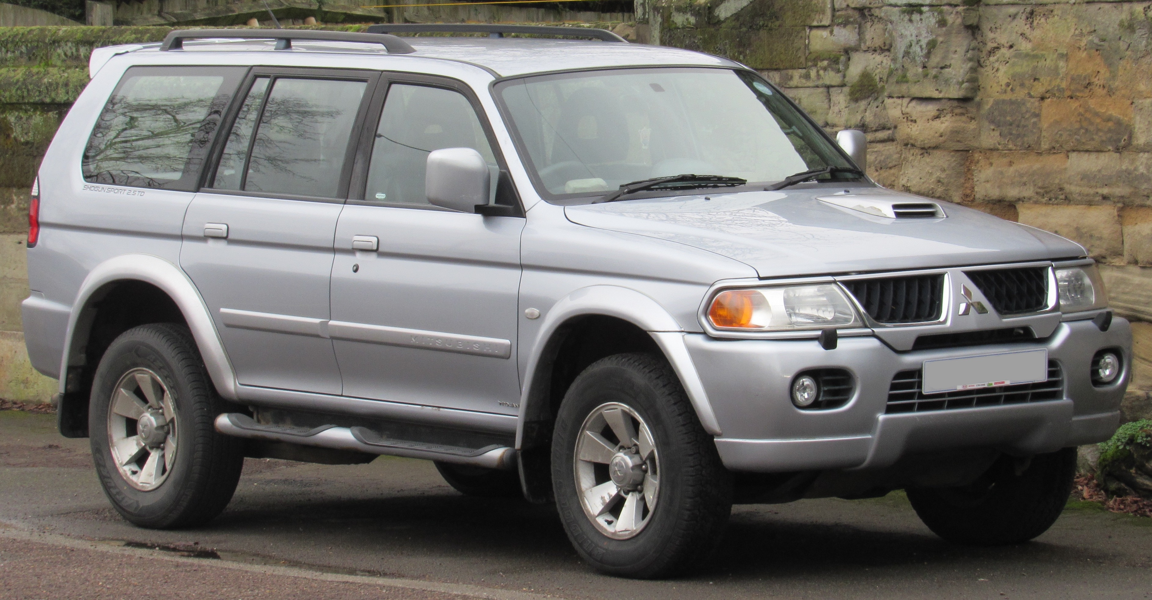 2006 Mitsubishi Shogun Sport Trojan 2.5 Front Taken in Warwick